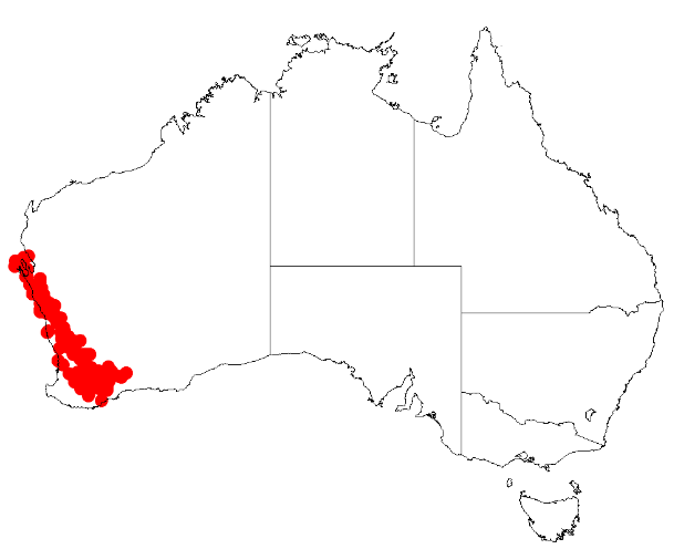 Acacia leptospermoides Occurrence data from Australasia Virtual Herbarium downloaded from on 8 December 2018